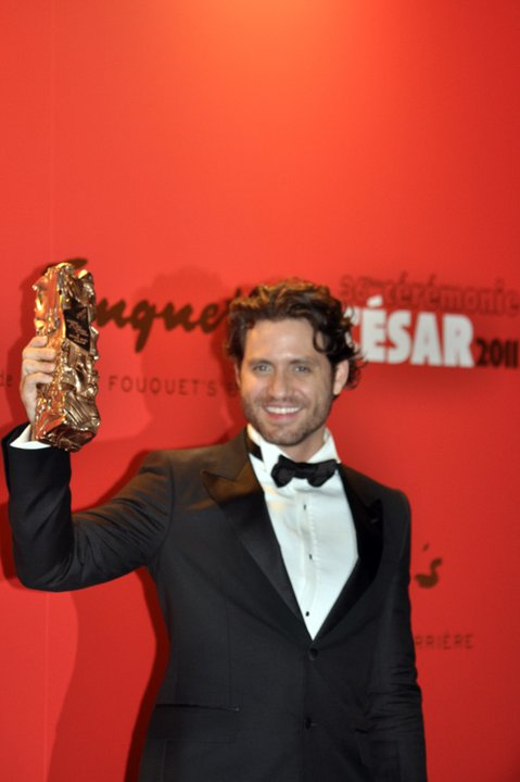 Edgar Ramirez in Paris at the César Awards ceremony